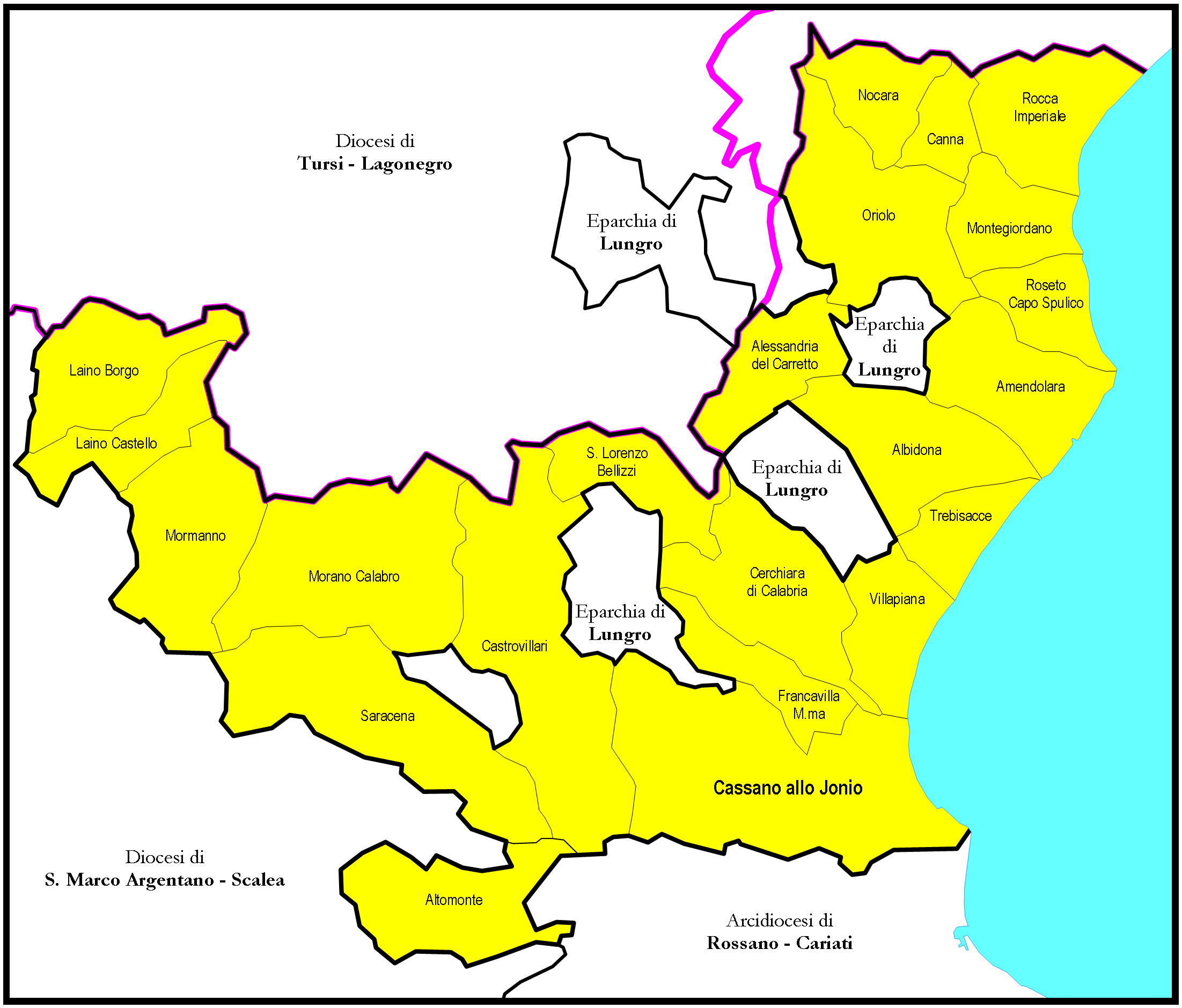 Map of Cassano allo Jonio's Diocese